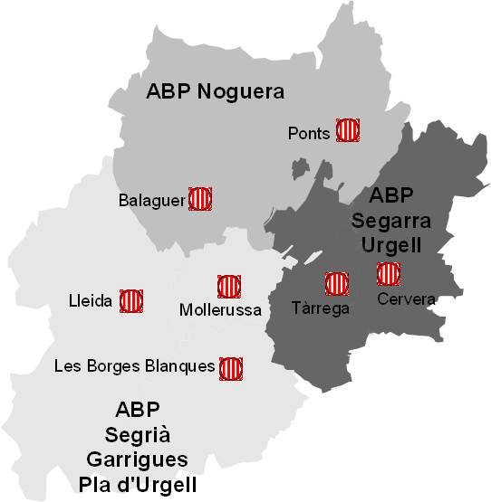 Map of West Police Region and police stations.